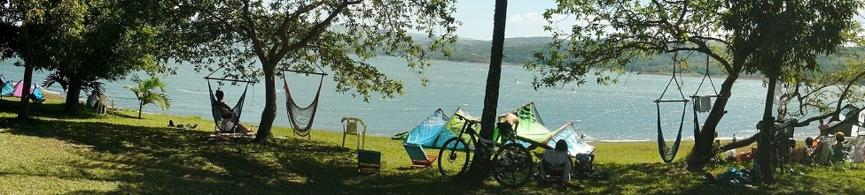 Public Lake access at the Tico Wind peninsula.